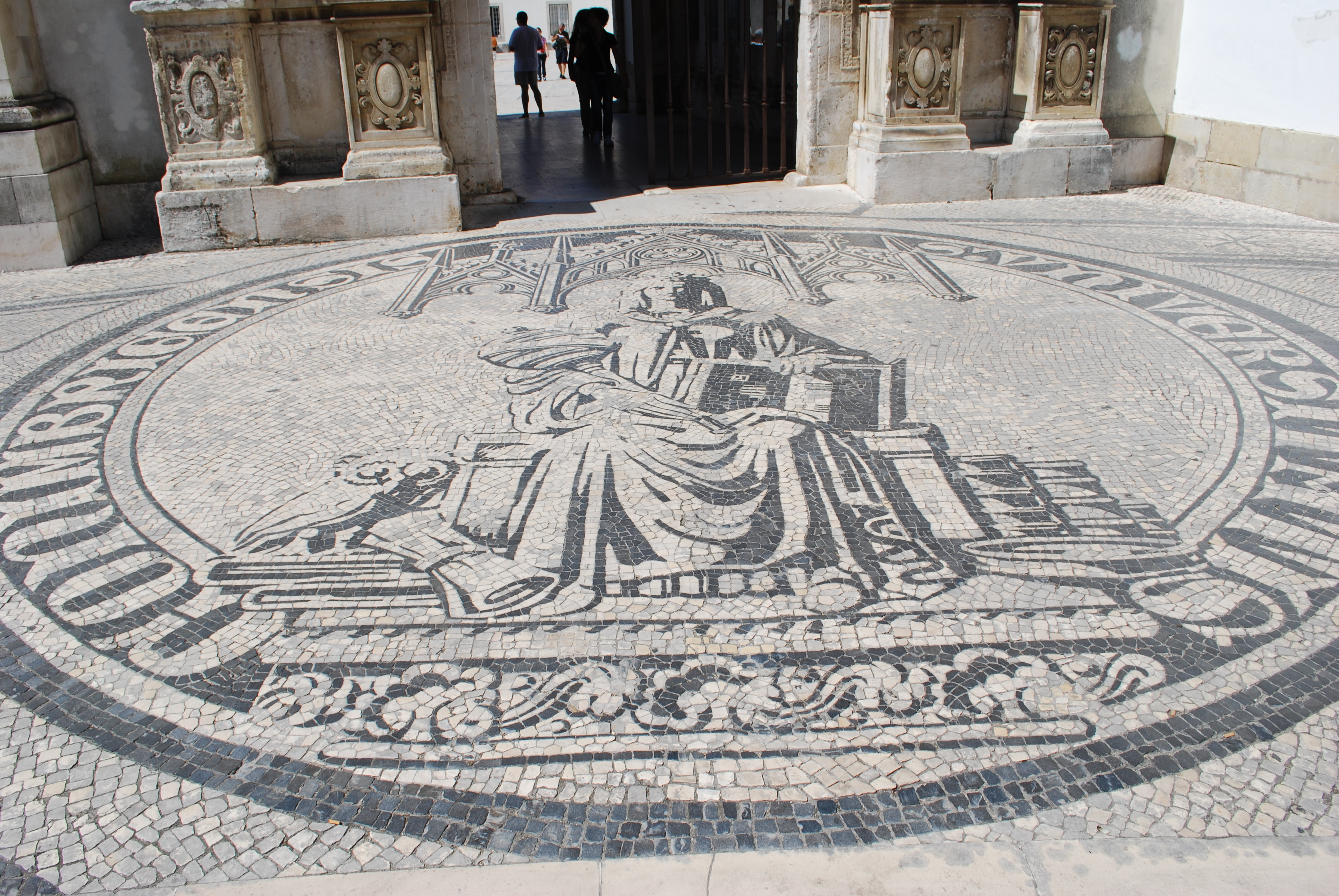 This file was uploaded for Wiki Loves Monuments in Portugal with the unique identifier 70318. This monument is classified as Monumento Nacional.